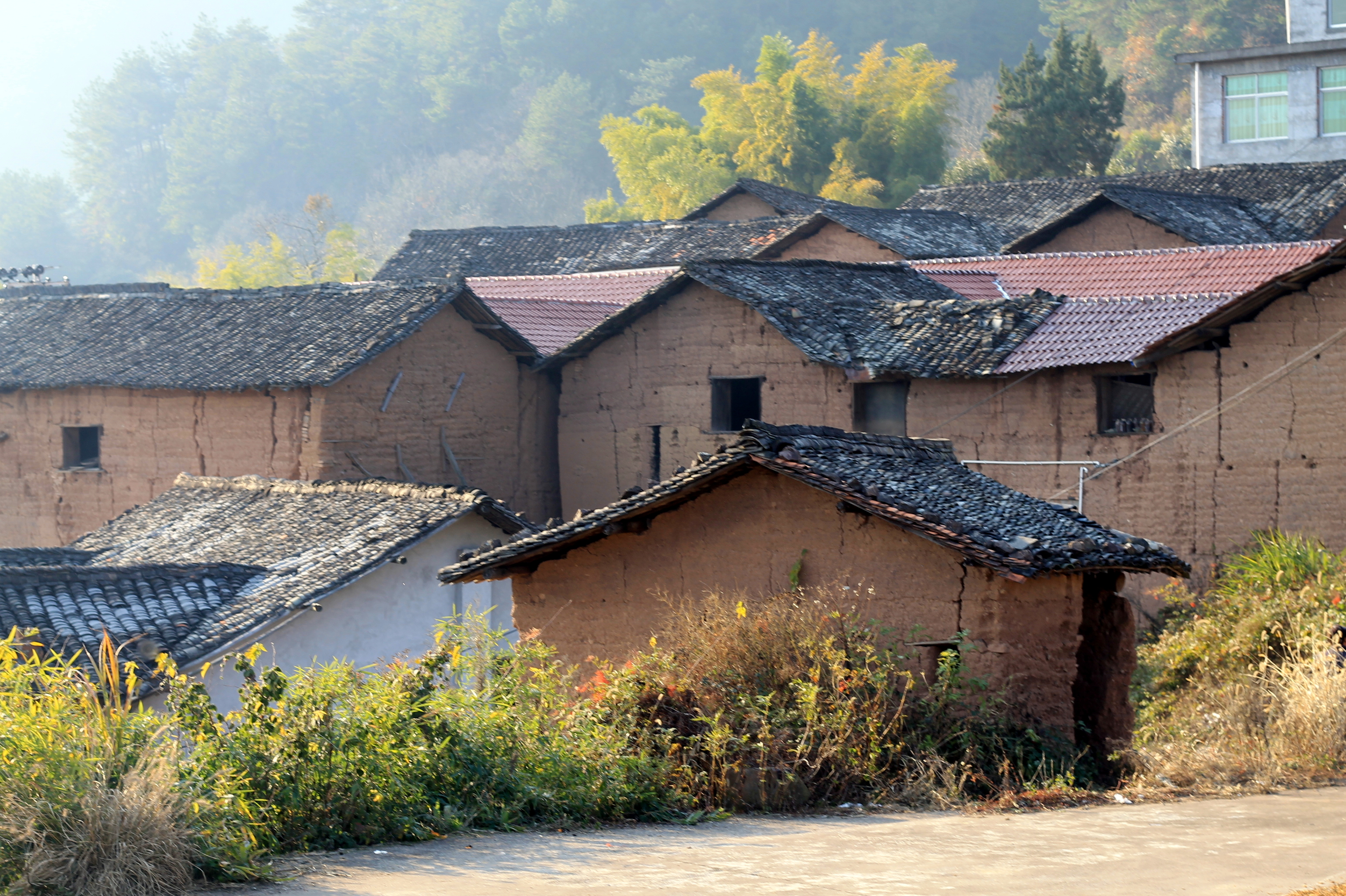 A small countryside village with old houses, Lishui, China